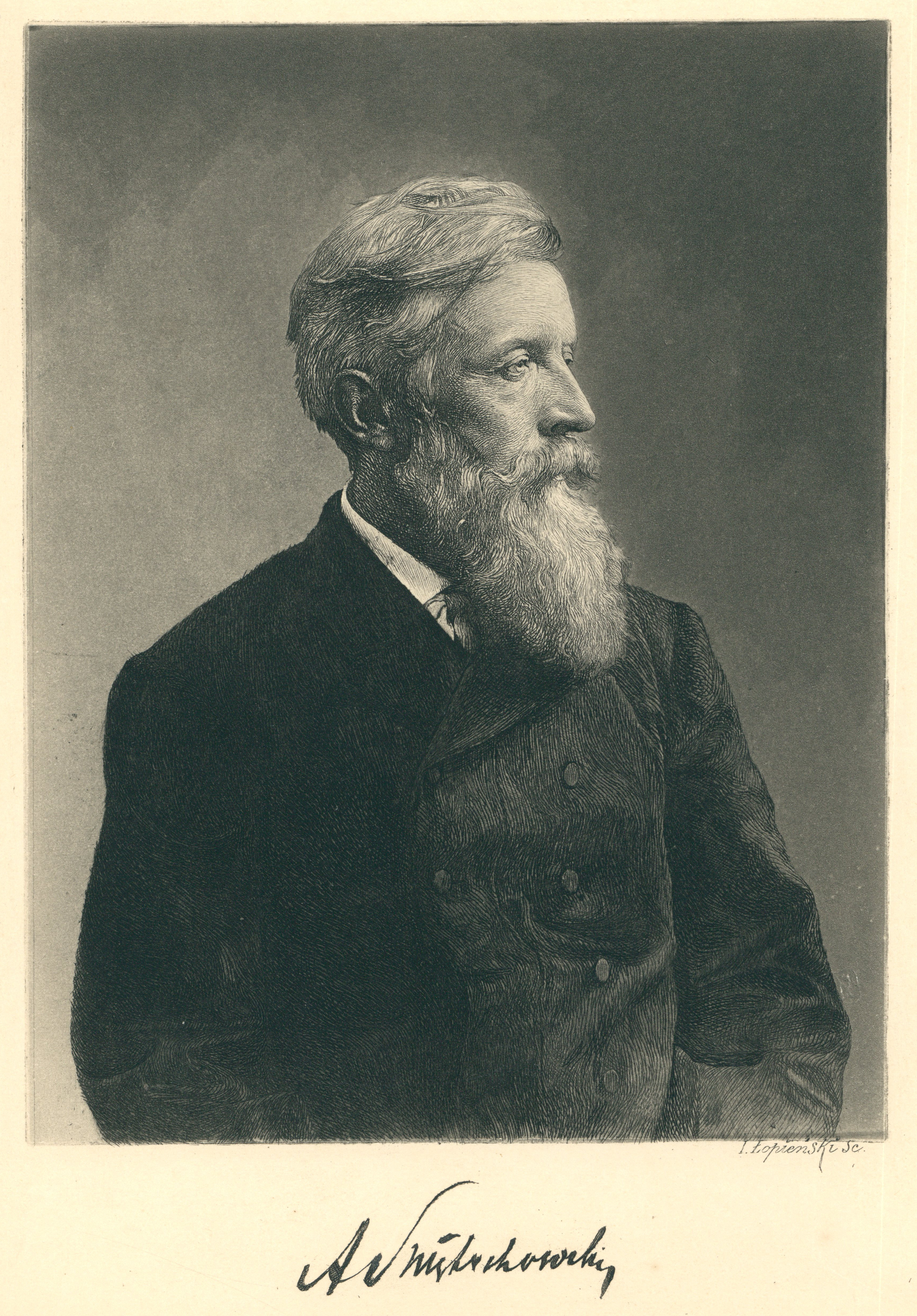 Aleksander Świętochowski, 1900 r.